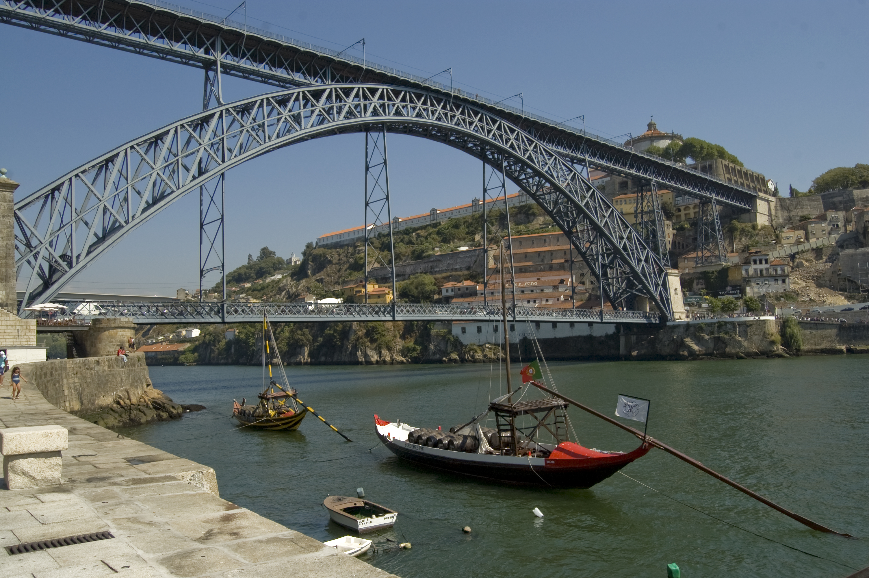 Dom Luís 1st Bridge - an arch bridge that spans the Douro River in Porto constructed by Teófilo Seyrig in 1881.